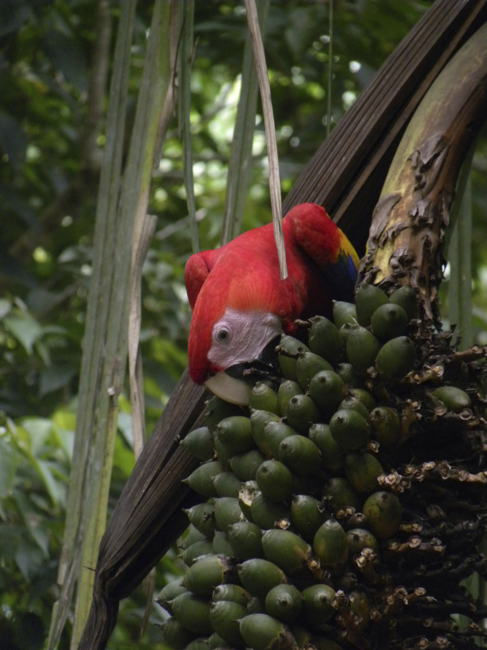 Ara macao feeding on Attalea sp. fruits in Carate, Puntarenas, Costa Rica.